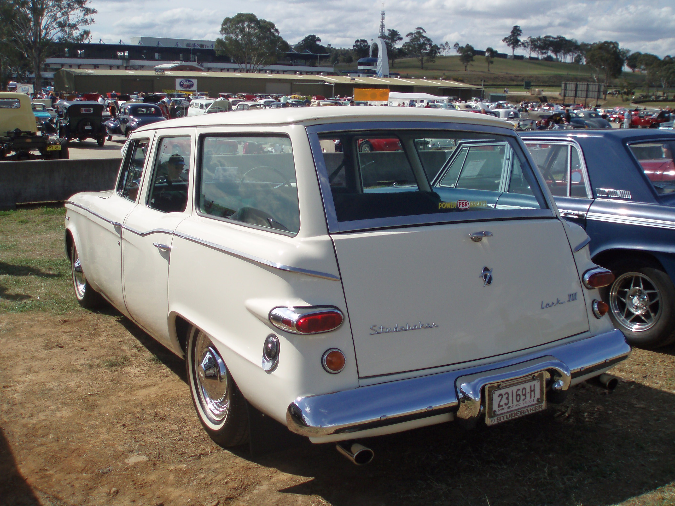 1961 Studebaker Lark VIII station wagon. Taken at Shannon's Eastern Creek Classic 2006, held at Eastern Creek Raceway Sydney.